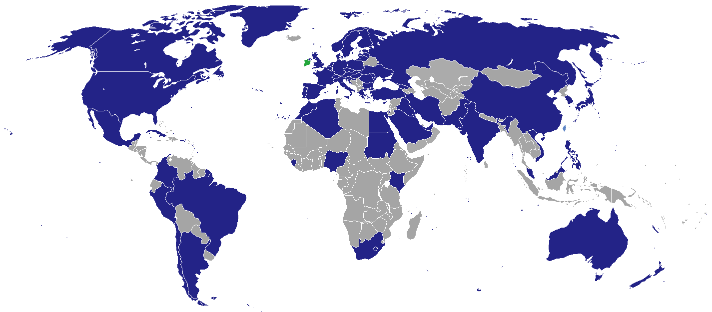 Map of diplomatic missions in the Republic of Ireland